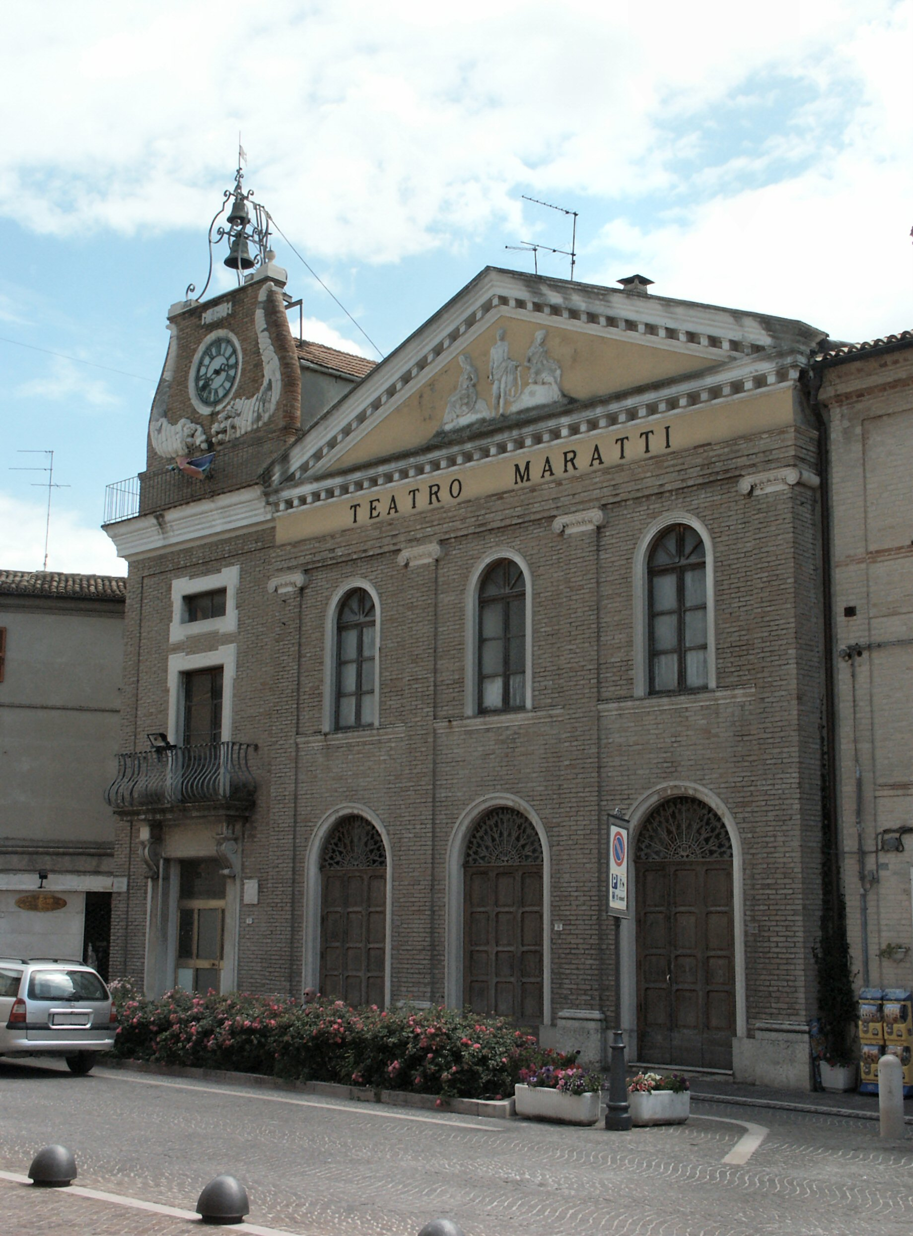 Teatro Maratti in Camerano (Marche) 2005